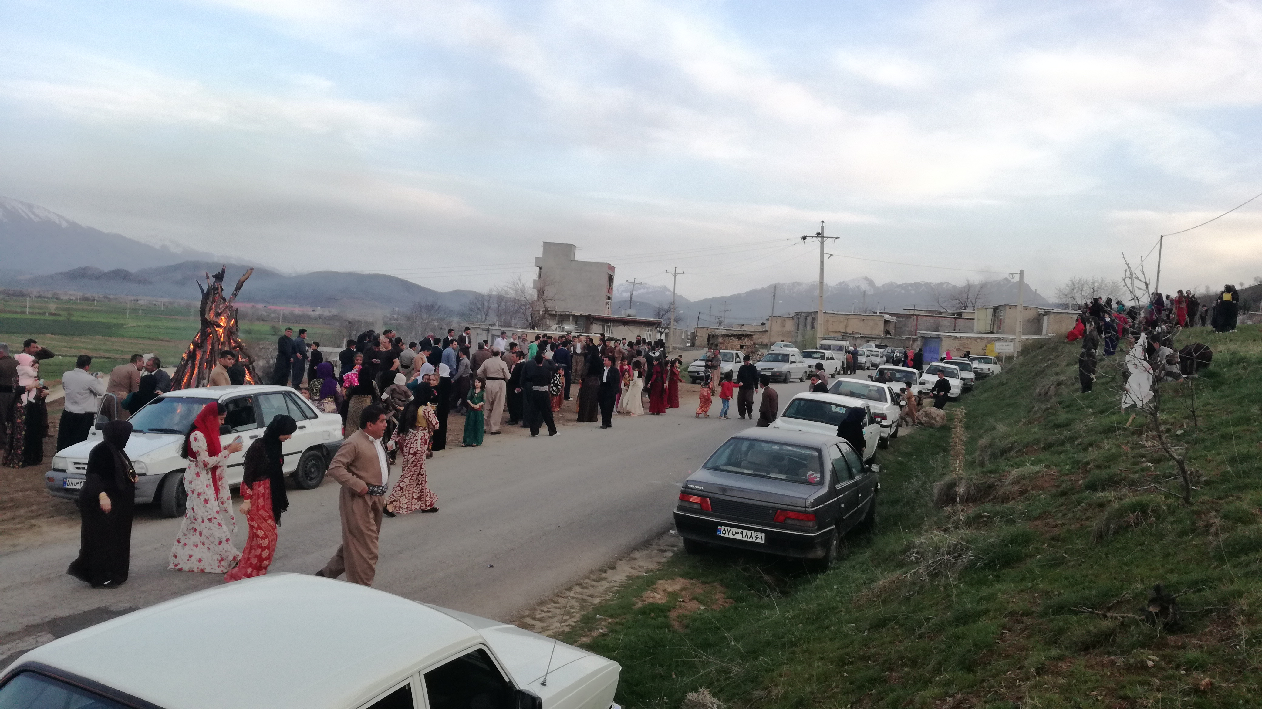 Kalkeh Jan